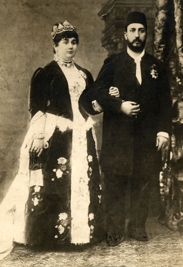 Tawfiq Pasha of Egypt with his wife Princess Amina Elhami (a.k.a. Umm al-Mohseneen) after their wedding. The crown and jewels covering the princess' dress are gifts from Tawfiq Pasha.